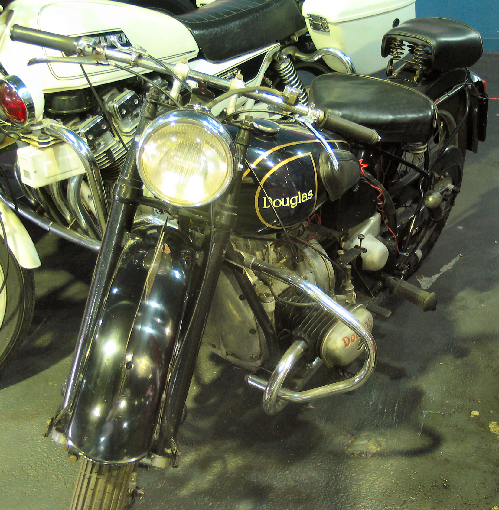 1948 Douglas Mark III motorcycle. The engine is a flat-twin. This motorcycle is in the Museum of Transport and Technology, Auckland, New Zealand.